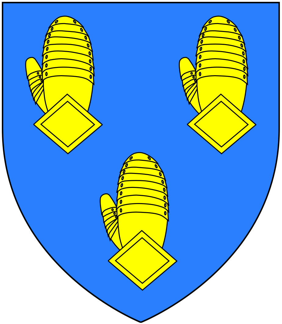 Arms of Fane: Azure, three dexter gauntlets back affrontée or (Debrett's Peerage, 1968, p.1148, Earl of Westmorland). A difference of these arms are those of Vane, Barons Barnard, Duke of Cleveland, etc.: Azure, three sinister gauntlets (appaumée) or (see: File:VaneArms.PNG) Vane arms (Source: Debrett's Peerage, 1968, p.115, which omits appaumée) ("In blazoning a Hand, besides stating what position it occupies, and whether it be the dexter or sinister, and erased or couped, it must be mentioned whether it be clenched or appaumé". (Cussans, John, Handbook of Heraldry, 2nd Edition, London, 1868, p.47[1], p.92)